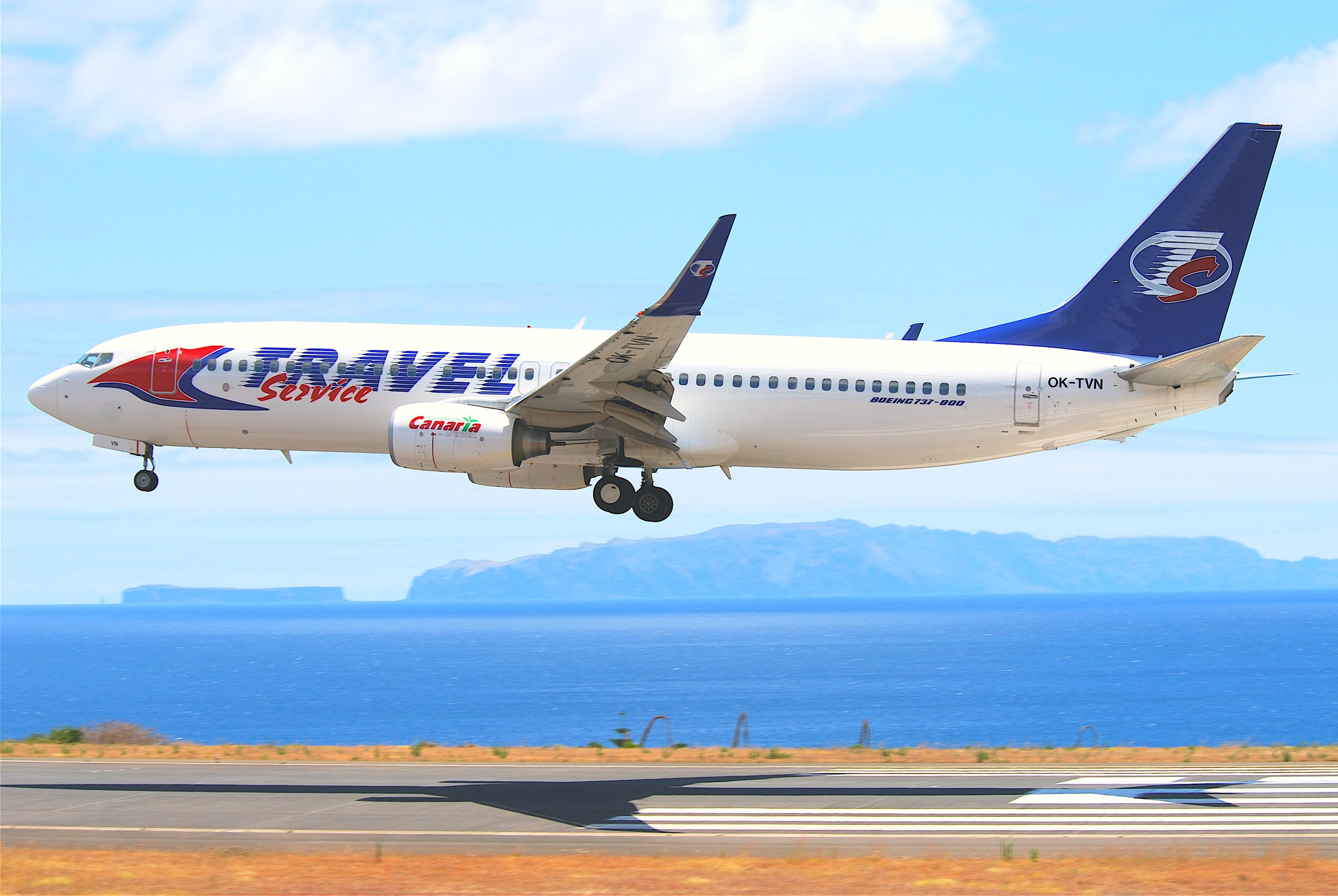 Travel Service Boeing 737-8BK; OK-TVN@FNC;12.07.2011/607an